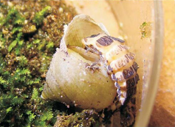 Larva of Alecton discoidalis predation on Ustronia sloanei, keeping the operculum at side in captivity.